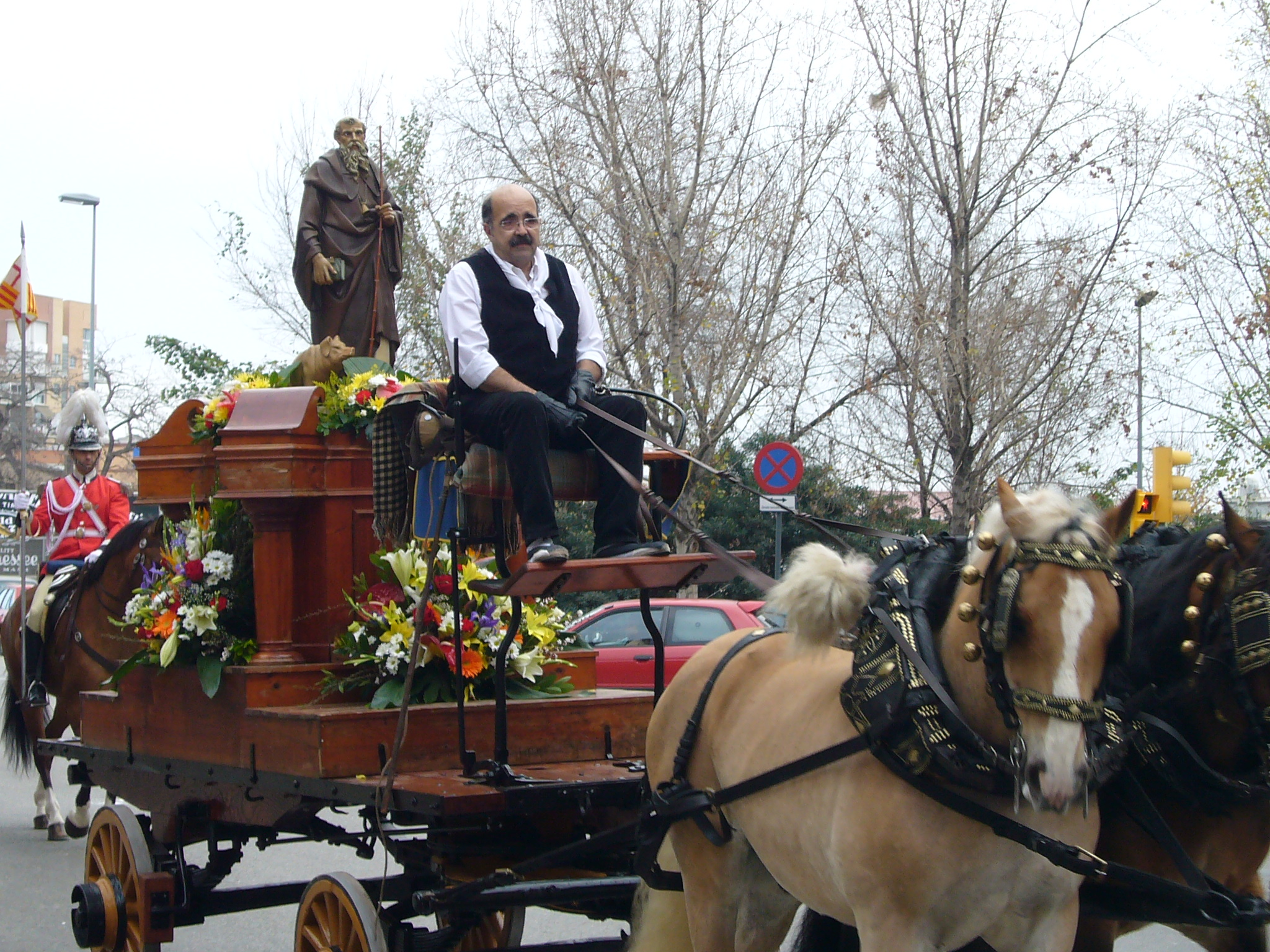 Tres Tombs - Sant Andreu de Palomar 2007 - Statue St Anthony